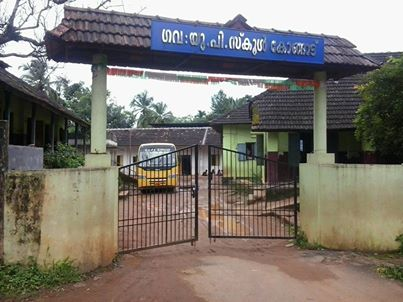 Kongad Government UP School